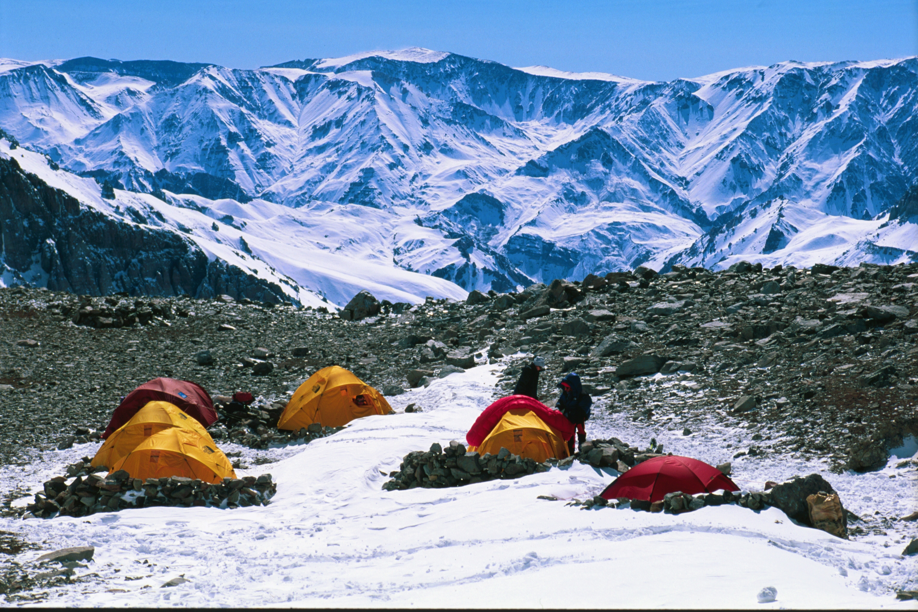 Camp 1 on Aconcagua, Argentina - Photographers comment: "The weather came good the day after we turned around."